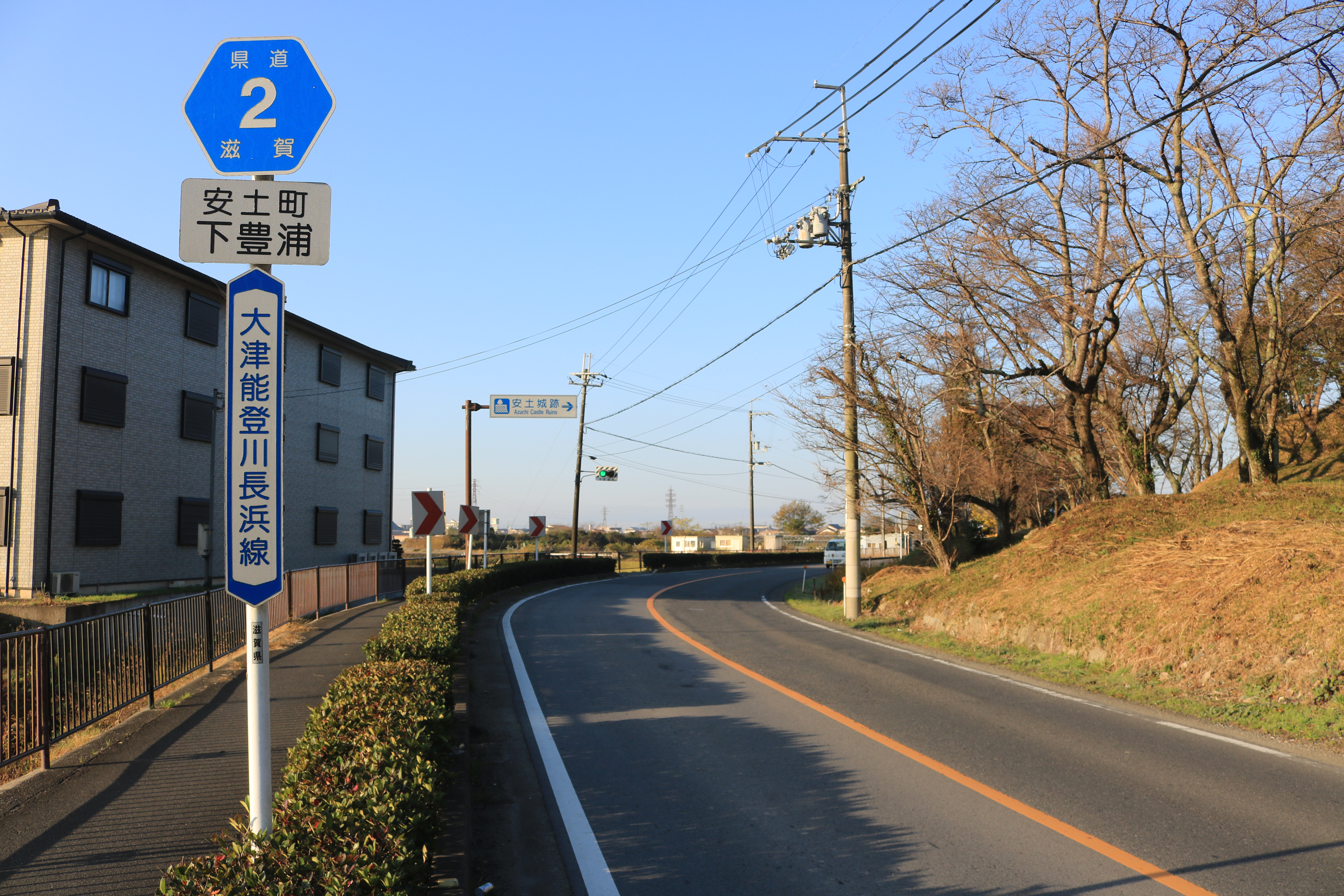 Shiga Prefectural Road Route 2 in Shimotohira Azuchi-chō, Omihachiman, Shiga prefecture, Japan.